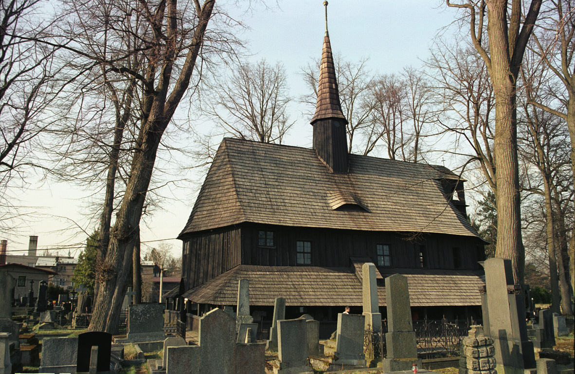 Broumov,THE CEMETERY CHURCH OF ST MARY